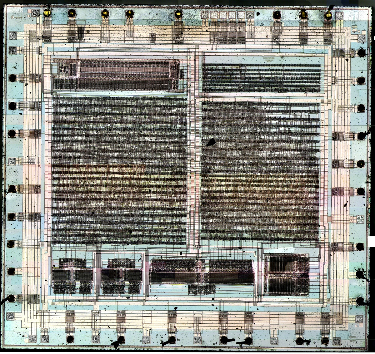 MYK-78 "Clipper Chip"Email Travis if you'd like a full res TIFF.